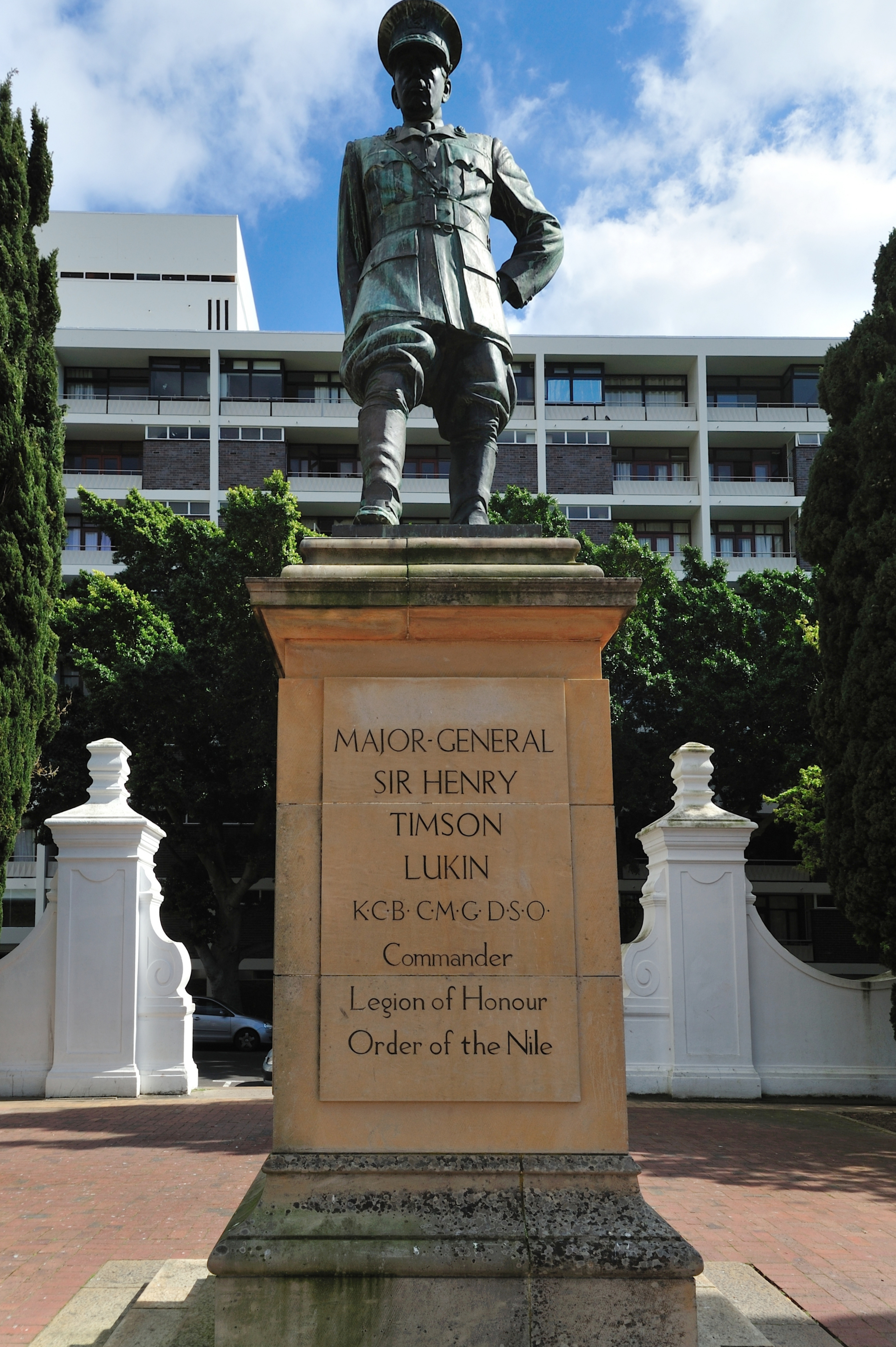 Monument of Sir Henry Timson Lukin, Company Gardens, Cape Town This media shows a South African Protected Site with SAHRA file reference 9/2/018/0149.